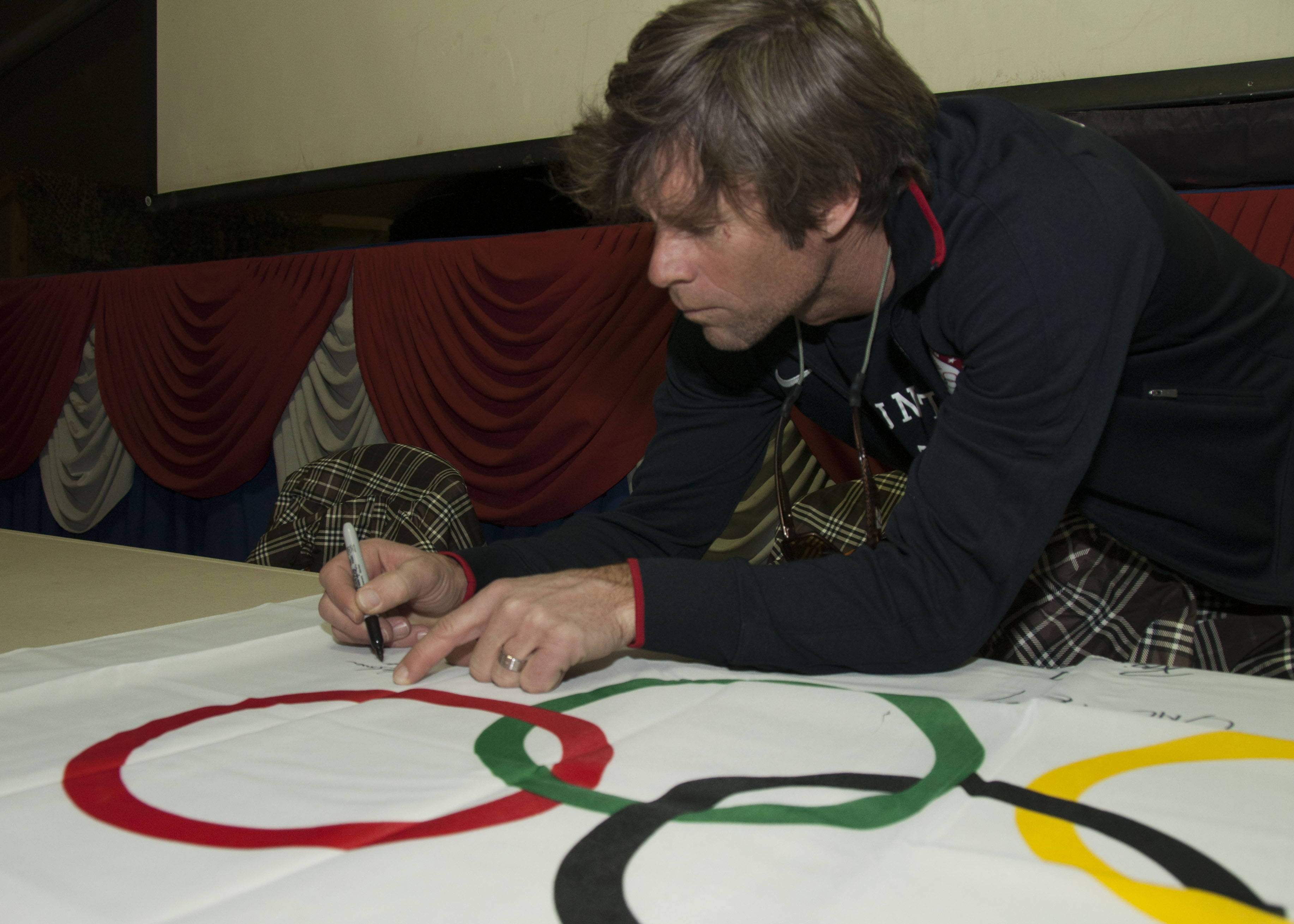 U.S. Olympian Nelson Carmichael, signs an Olympic banner to be displayed during an American 300 tour at Transit Center at Manas, Kyrgyzstan, Feb. 13, 2013. American 300 tours are designed to help increase the resiliency of service members, their families and the communities they serve in through motivational entertainment. This particular tour through Kyrgyzstan featured multiple winter athletes.